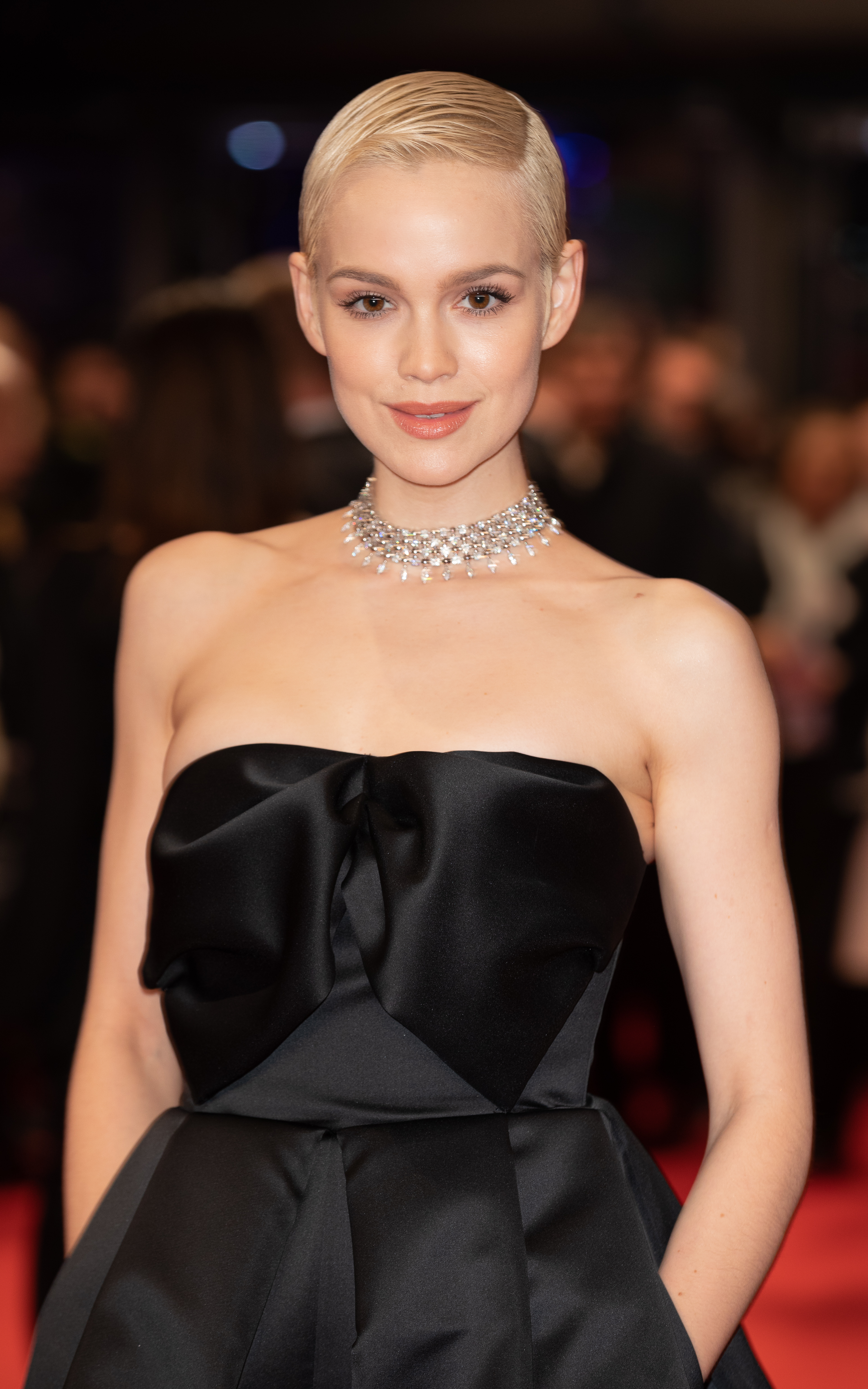 Emilia Schüle at Berlinale 2020